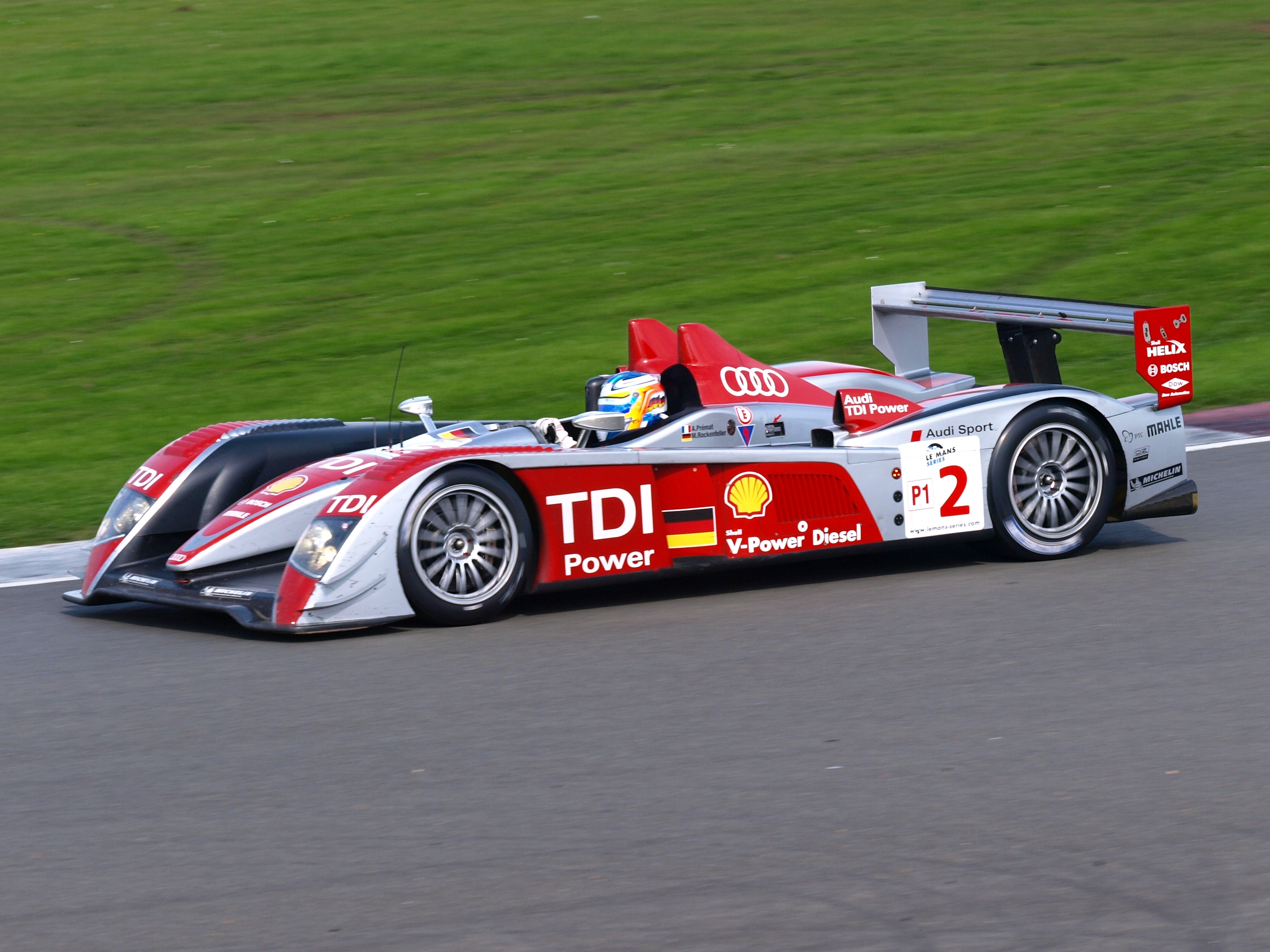 Mike Rockenfeller driving the Audi R10 at the 2008 1000km of Silverstone.